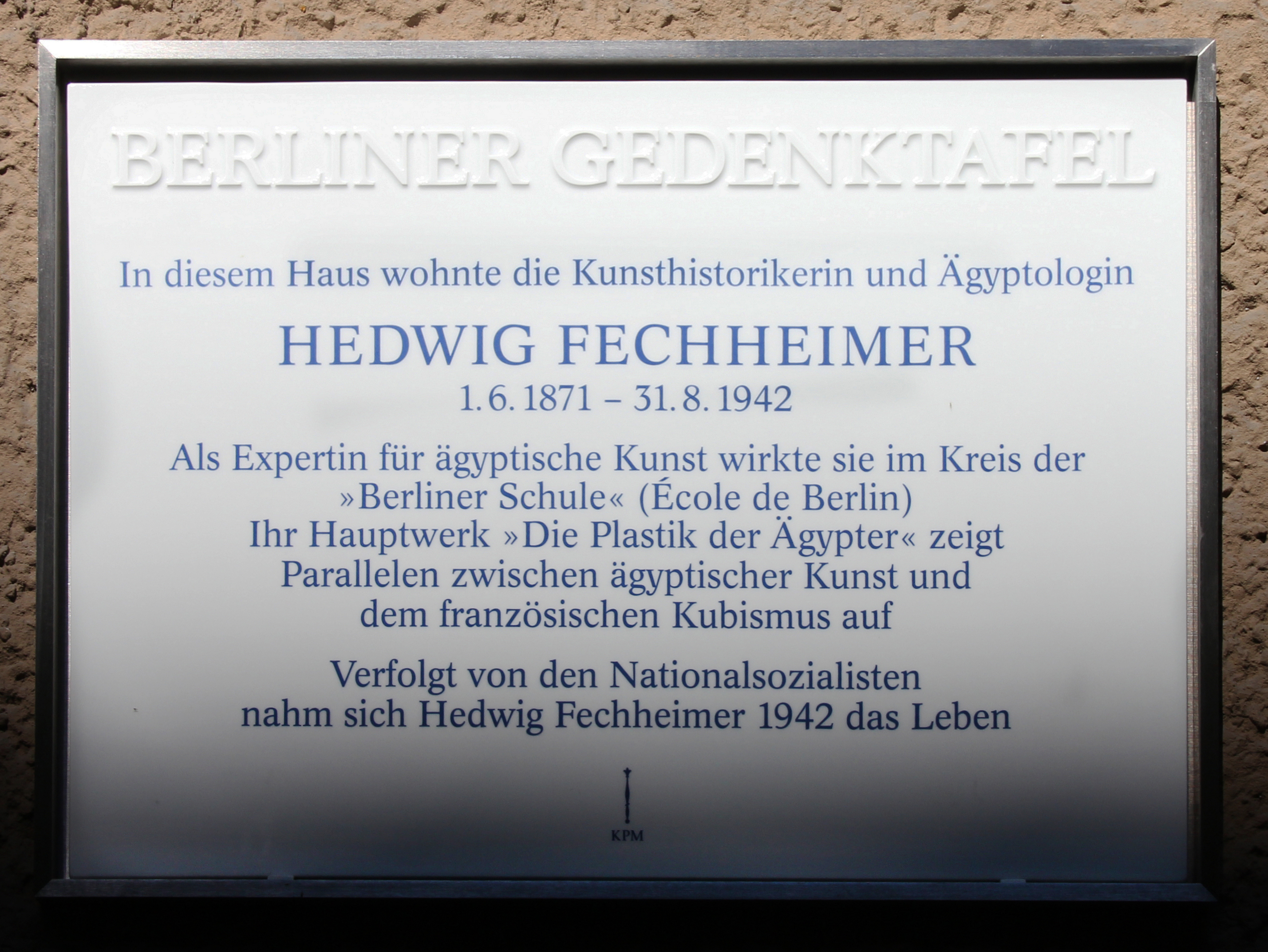 Berlin memorial plaque, Hedwig Fechheimer, Helmstedter Straße 10, Berlin-Wilmersdorf, Germany